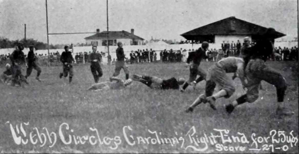 Scene from the Clemson-South Carolina football game in 1911